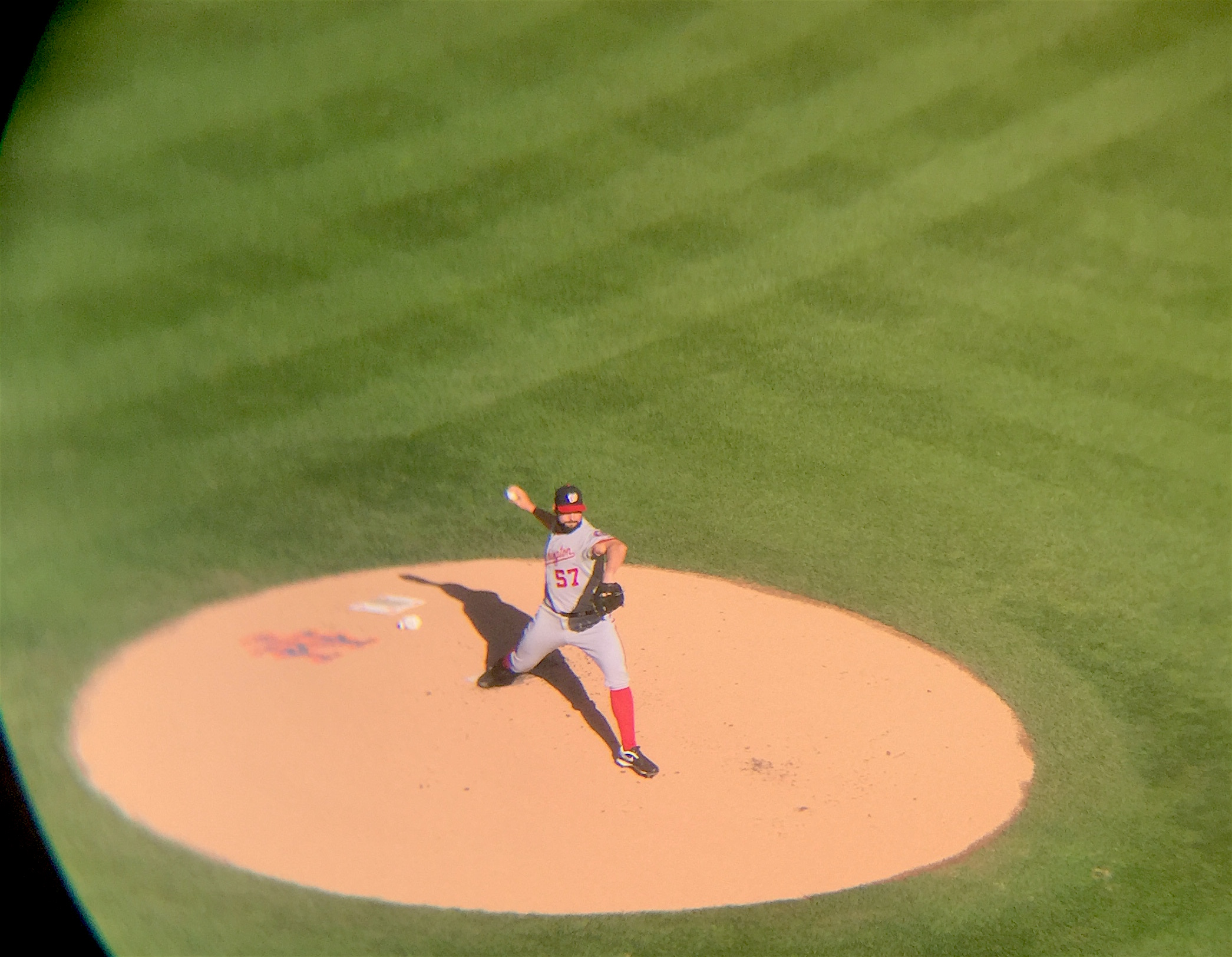 Tanner Roark of the Washington Nationals pitches at Citi Field against the New York Mets, October 4, 2015.